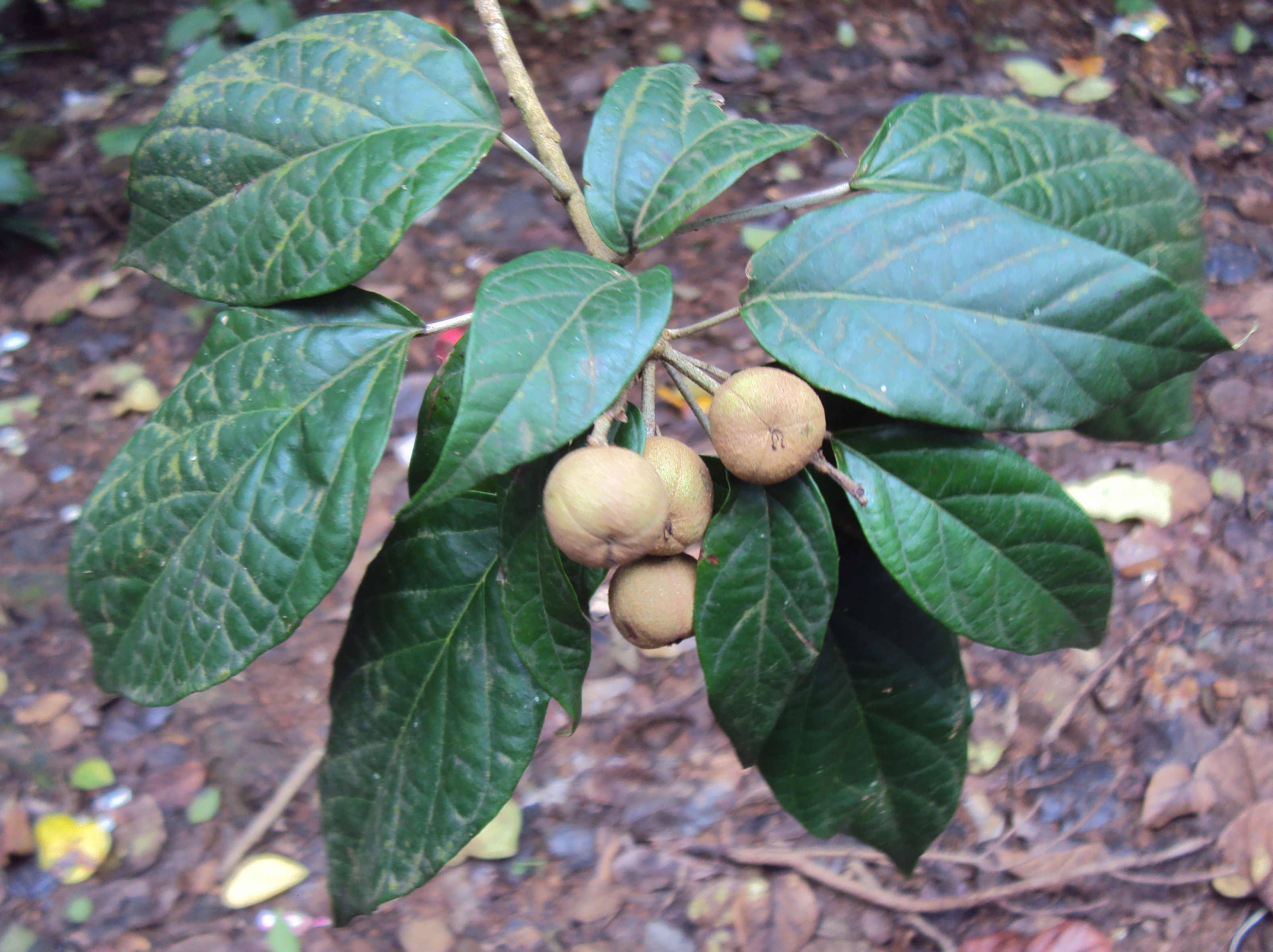 Croton malabaricum